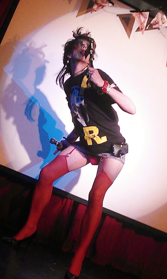 English queercore performance artist David Hoyle, taken at his summer 2012 show, "Pandrogyne", held at the Royal Vauxhall Tavern in South London.